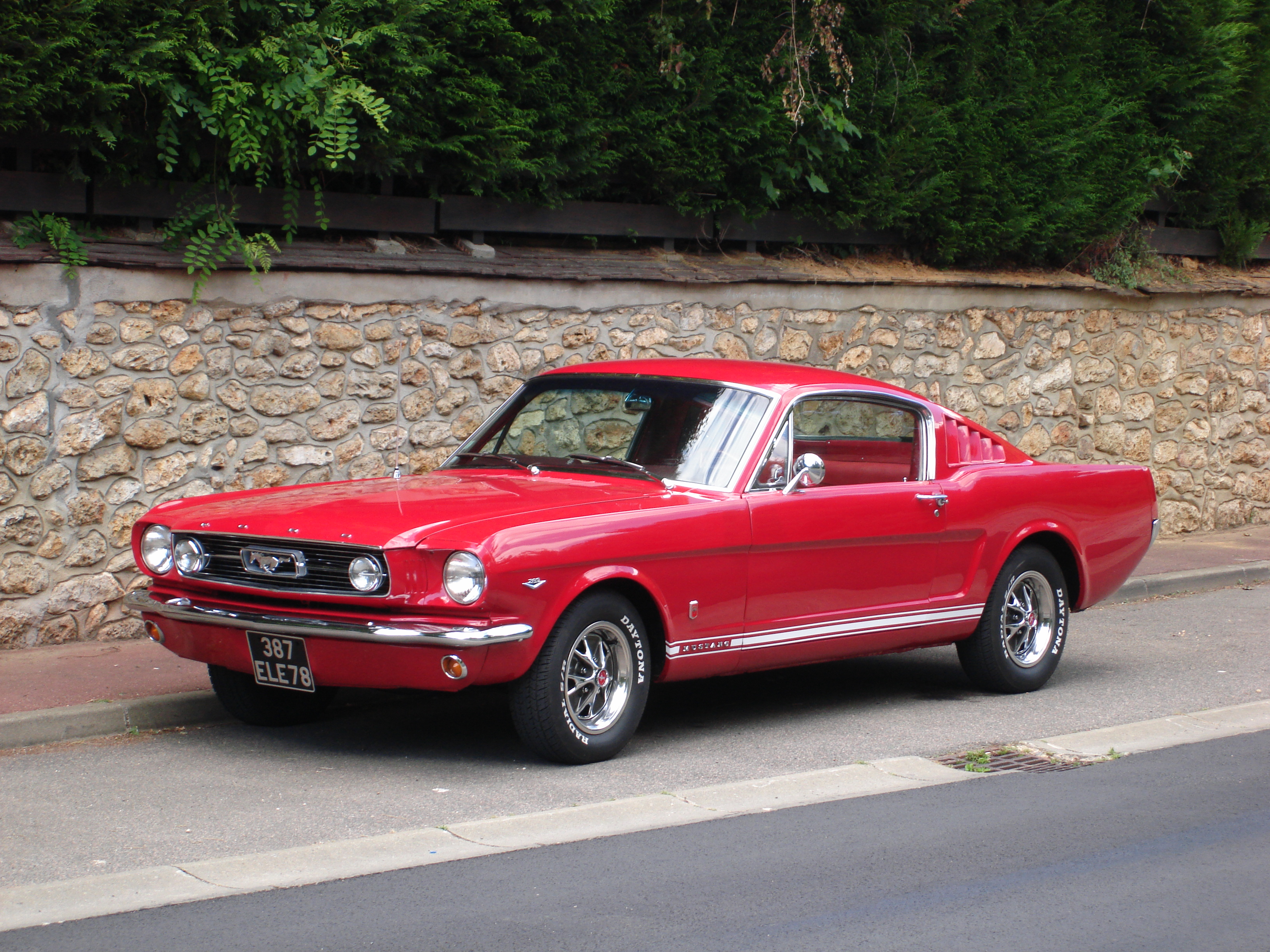 Picture taken July 14, 2008 in Villiers-le-Bâcle, France.